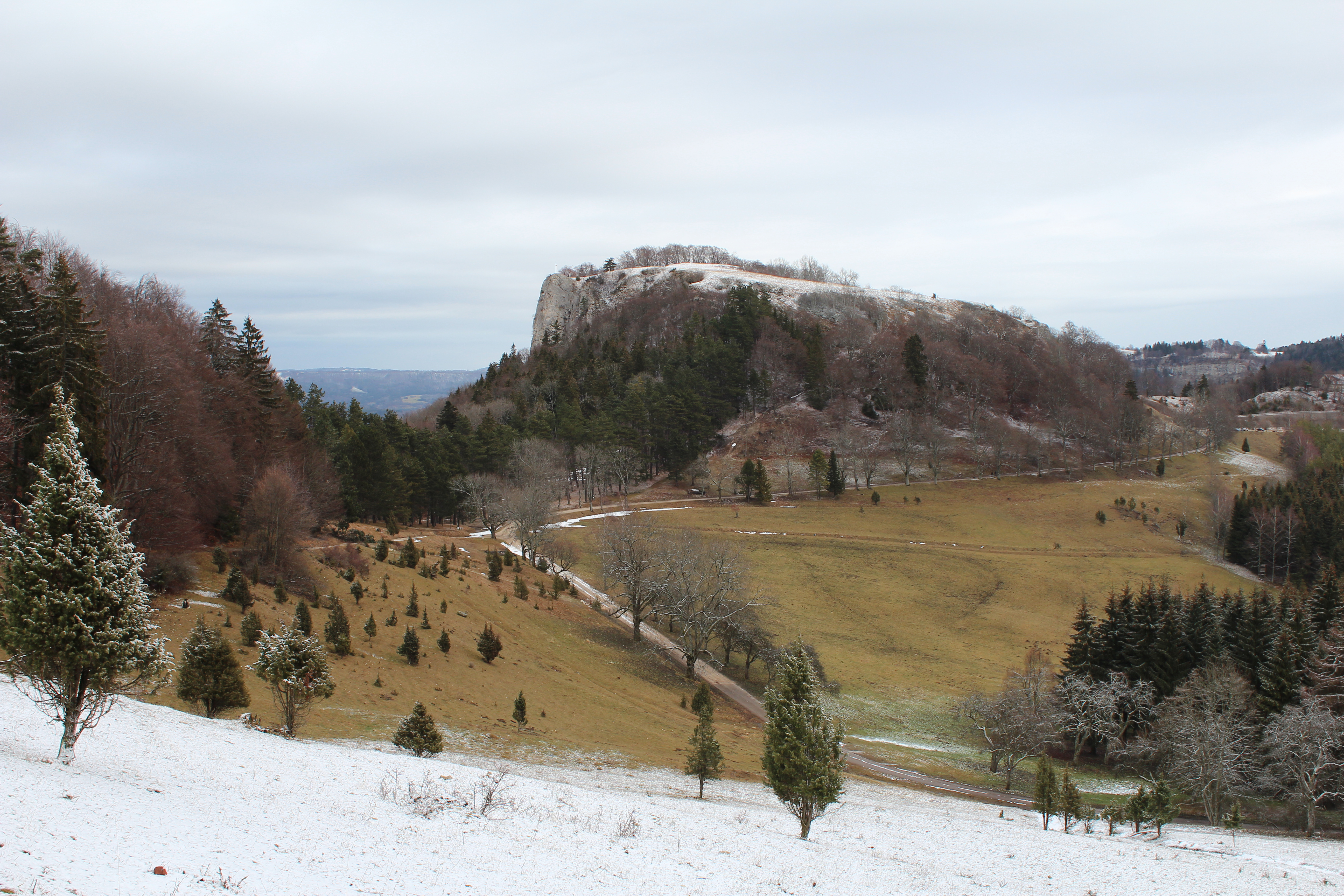 The Lochenstein near Balingen, Germany, in winter